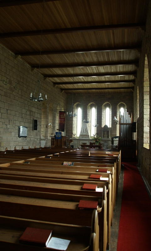 Fearn Abbey, Highland, Scotland - church interior